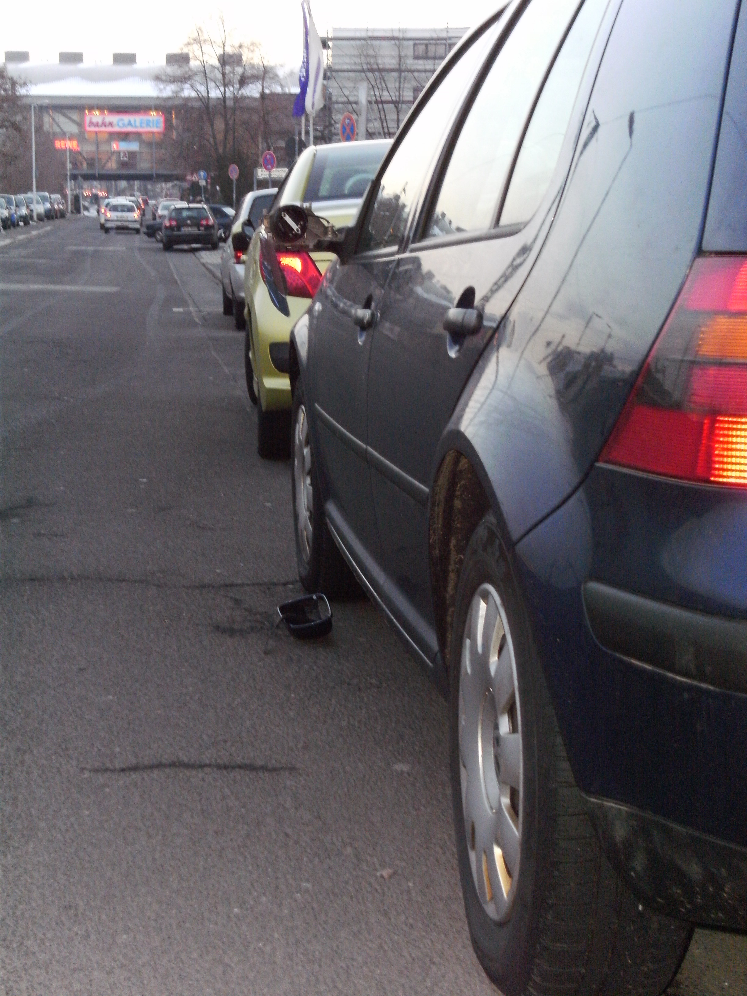 Hit and run - seen in Darmstadt (Germany) nearby main station